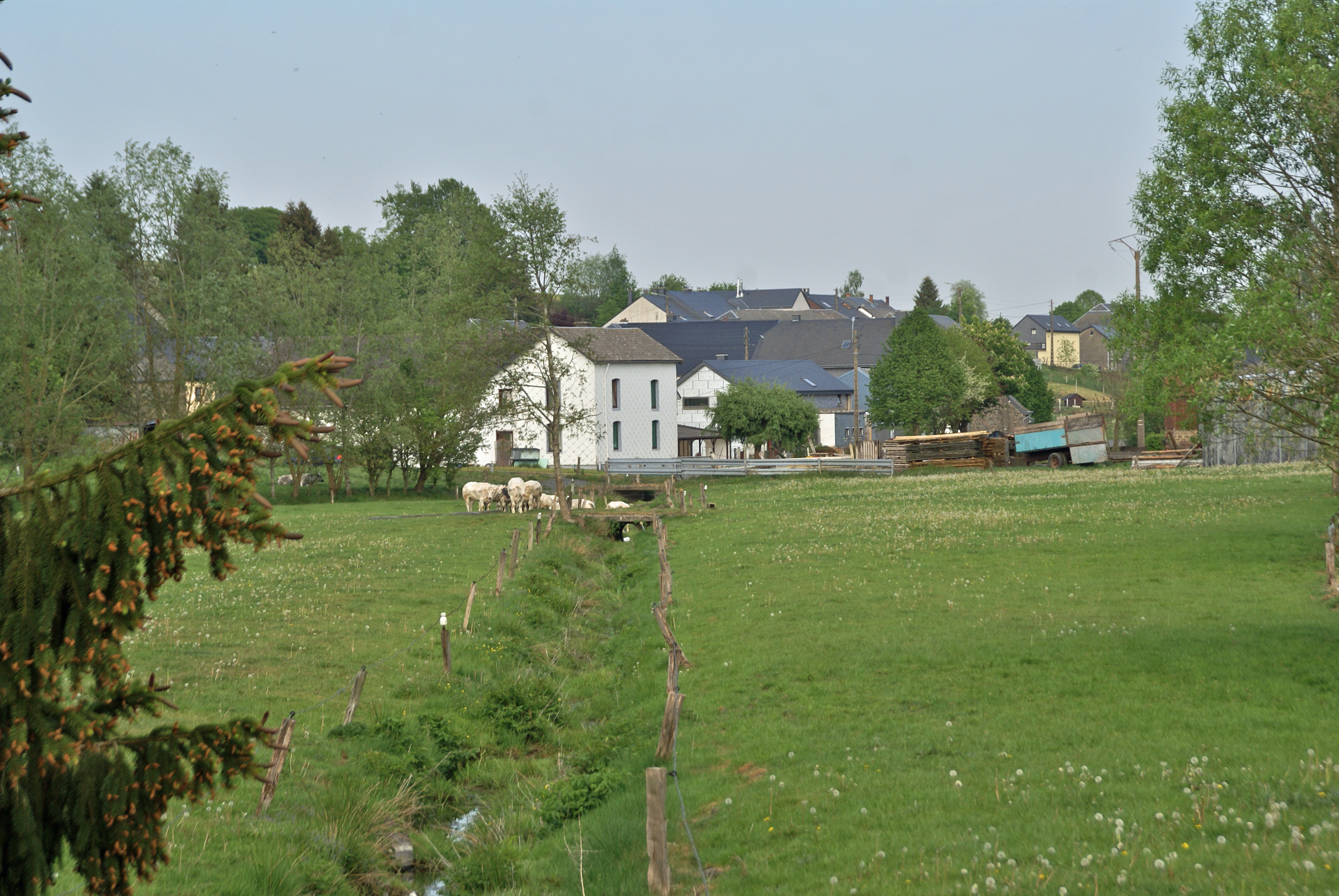 Vaux-sur-Sûre, Belgium: The river Sauer